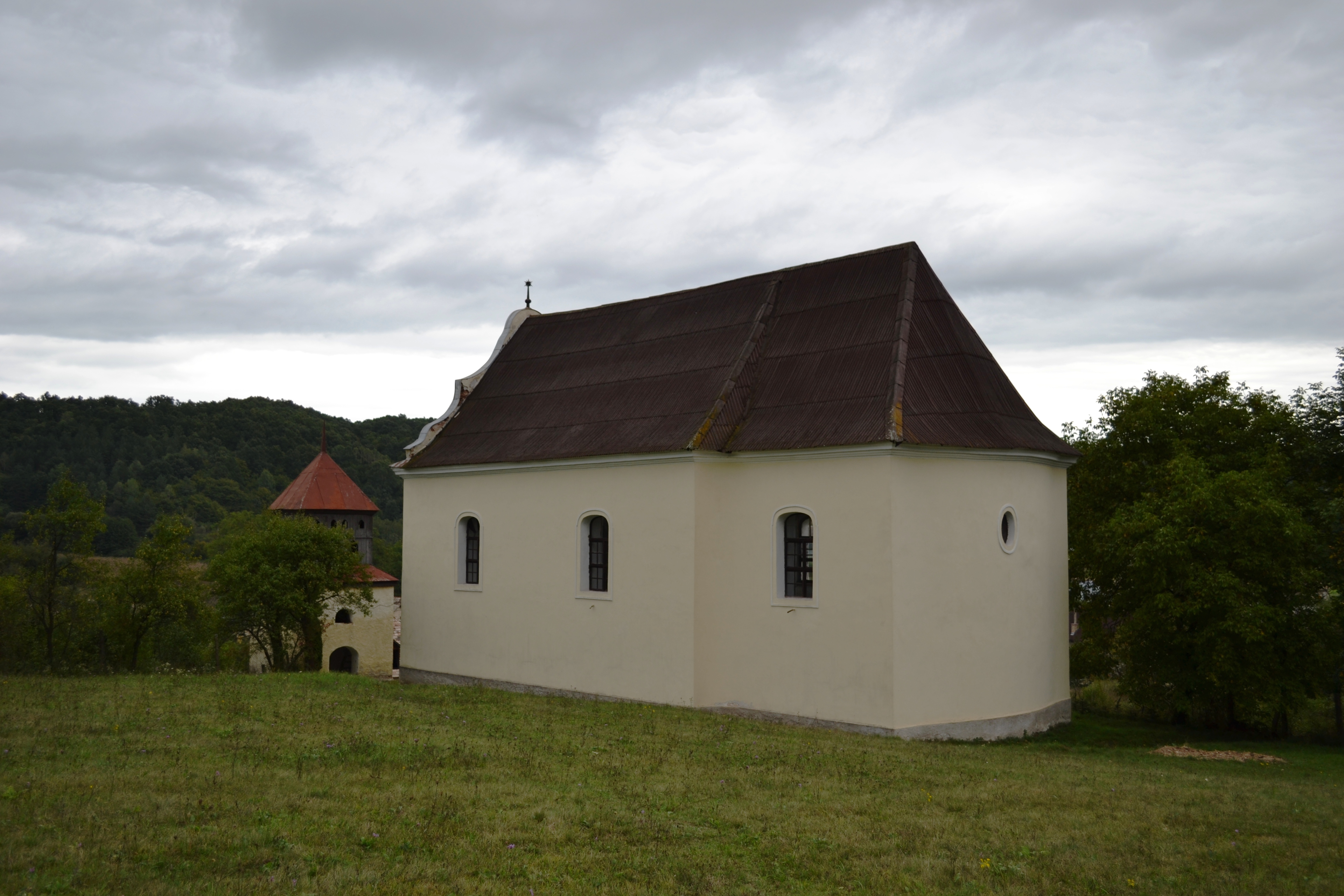 Evangelical Church in SelceSlovenčina: Evanjelický kostol v Selciach